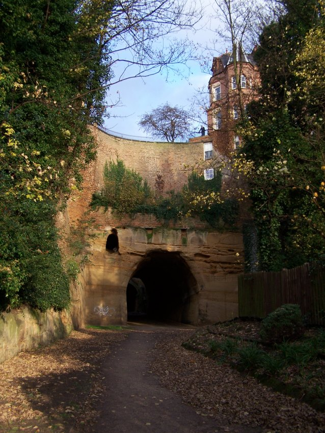 Source: Tina Cordon, Author: Own Picture Tina Cordon 00:40, 6 January 2007 (UTC) The Park Tunnel photographed from Tunnel Road in the Park, Nottingham in 2006 (see Nottingham's Tunnels).